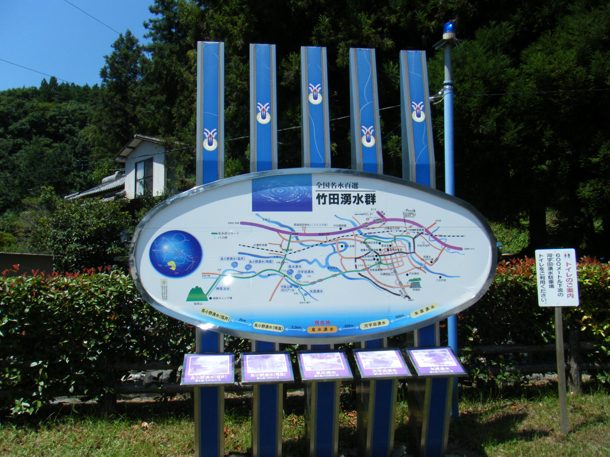 Taketayusuigun